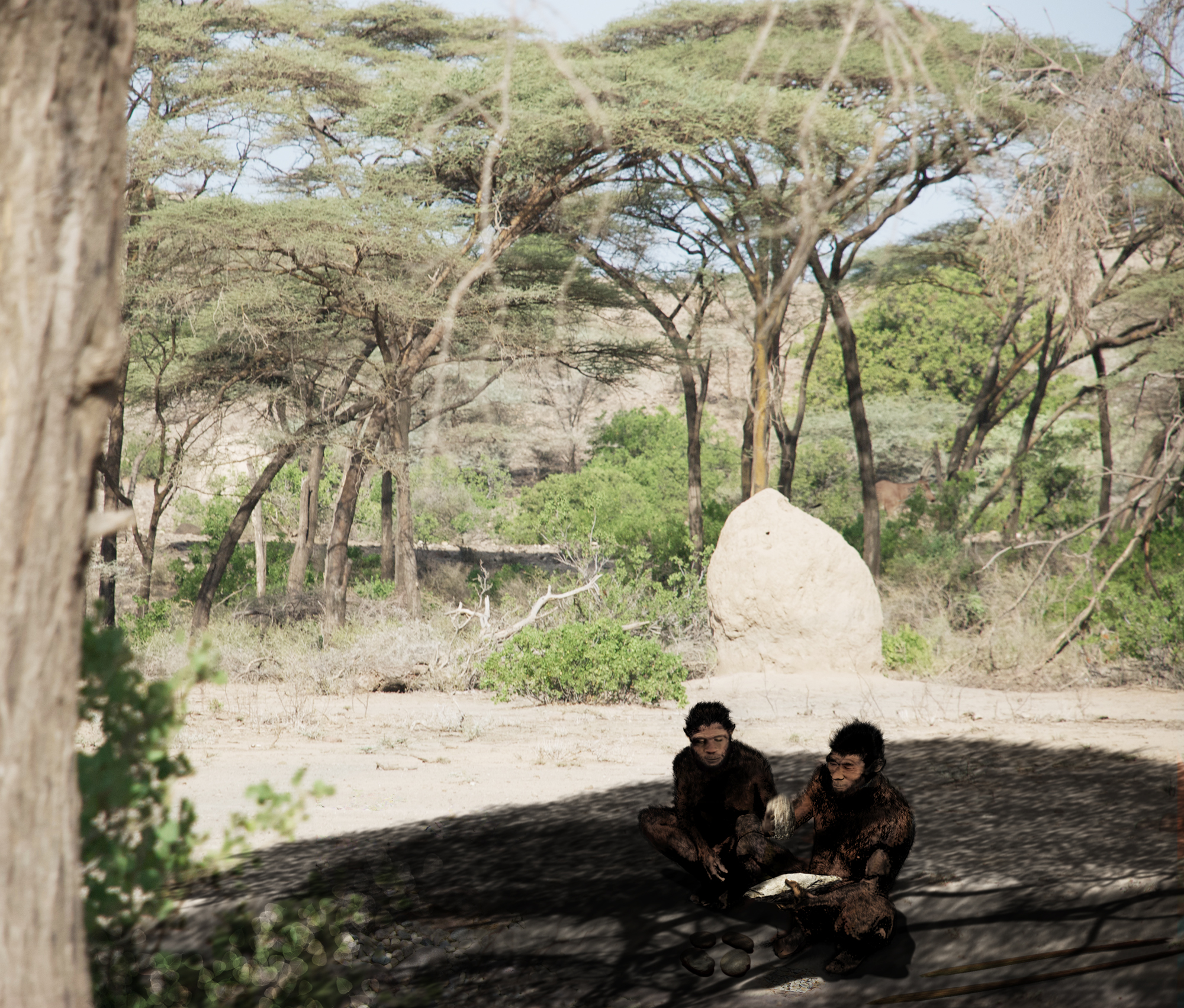 This restoration is based on evidence from the Daka Member, Ethiopia. The photo in the background is from a gallery forest on the Kebena River, a tributary of the modern Awash River. The squatting posture is based on femoral anteversion frequent in Homo erectus. The hand ax is African latest early or early middle Acheulean. The bovid in the background is Nitidarcus asfawi from the Daka Member. The cranial shape is based on BOU-VP-2-66, the Daka Calvaria.